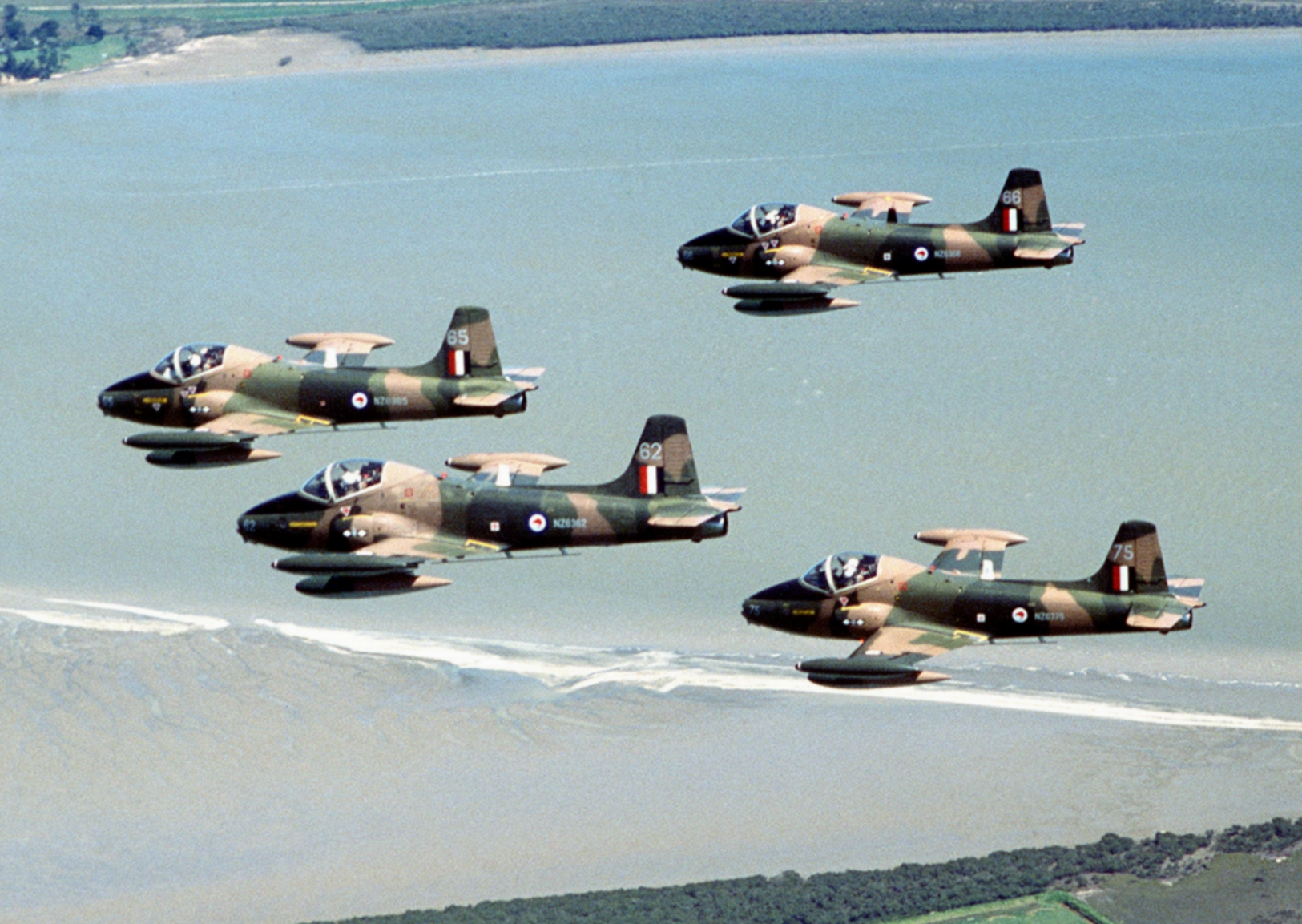 Four BAC Strikemaster Mk.88 aircraft of the Royal New Zealand Air Force in formation during the joint Australian, New Zealand and US (ANZUS) Exercise TRIAD '84.